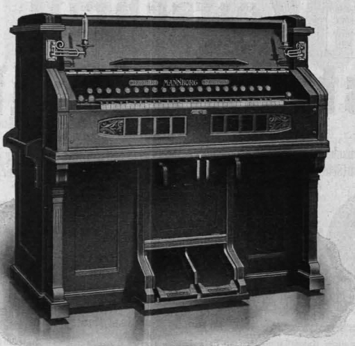 Mannborg Art Harmonium ca. 1910